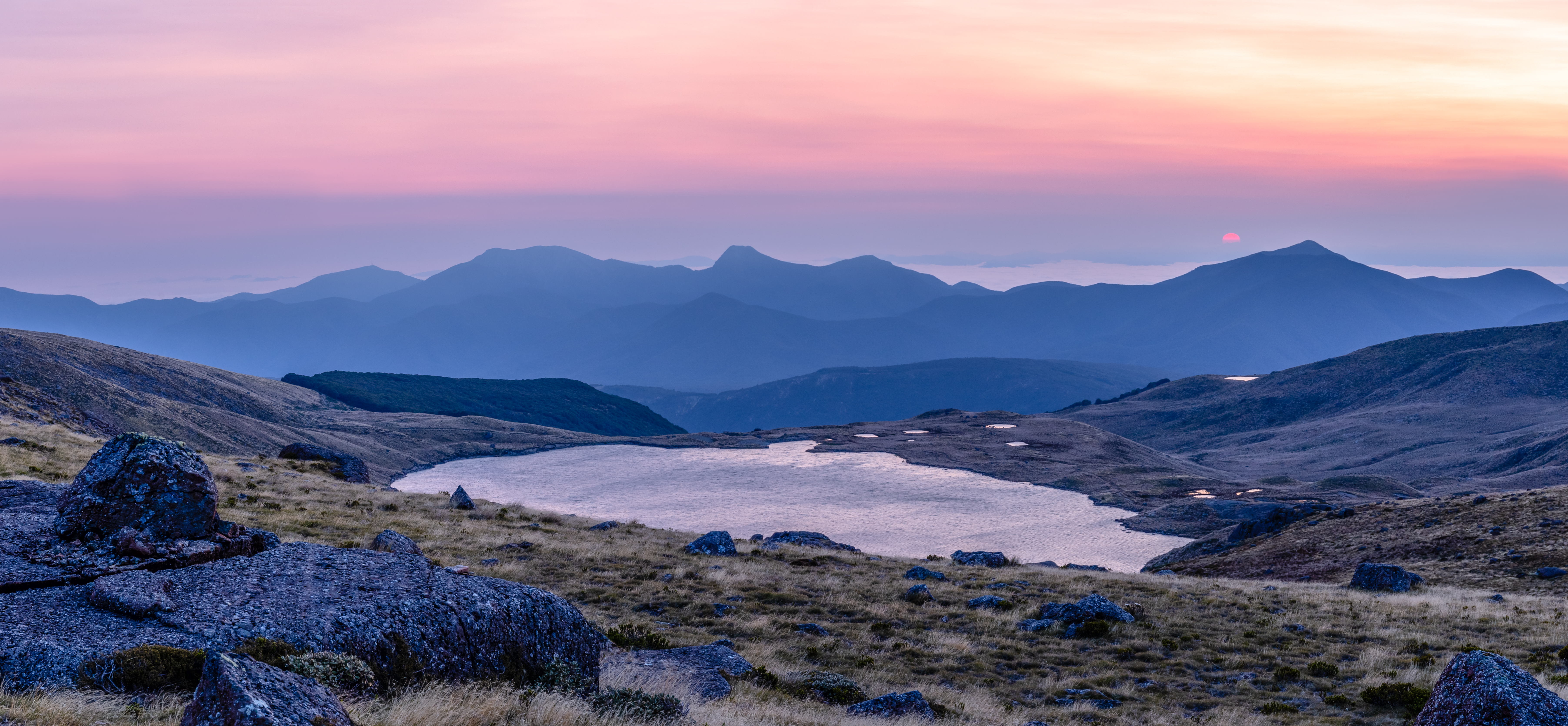 Lake Sylvester during the sunrise. The picture was taken near Iron Lake looking towards Nelson. Kahurangi National Park, New Zealand